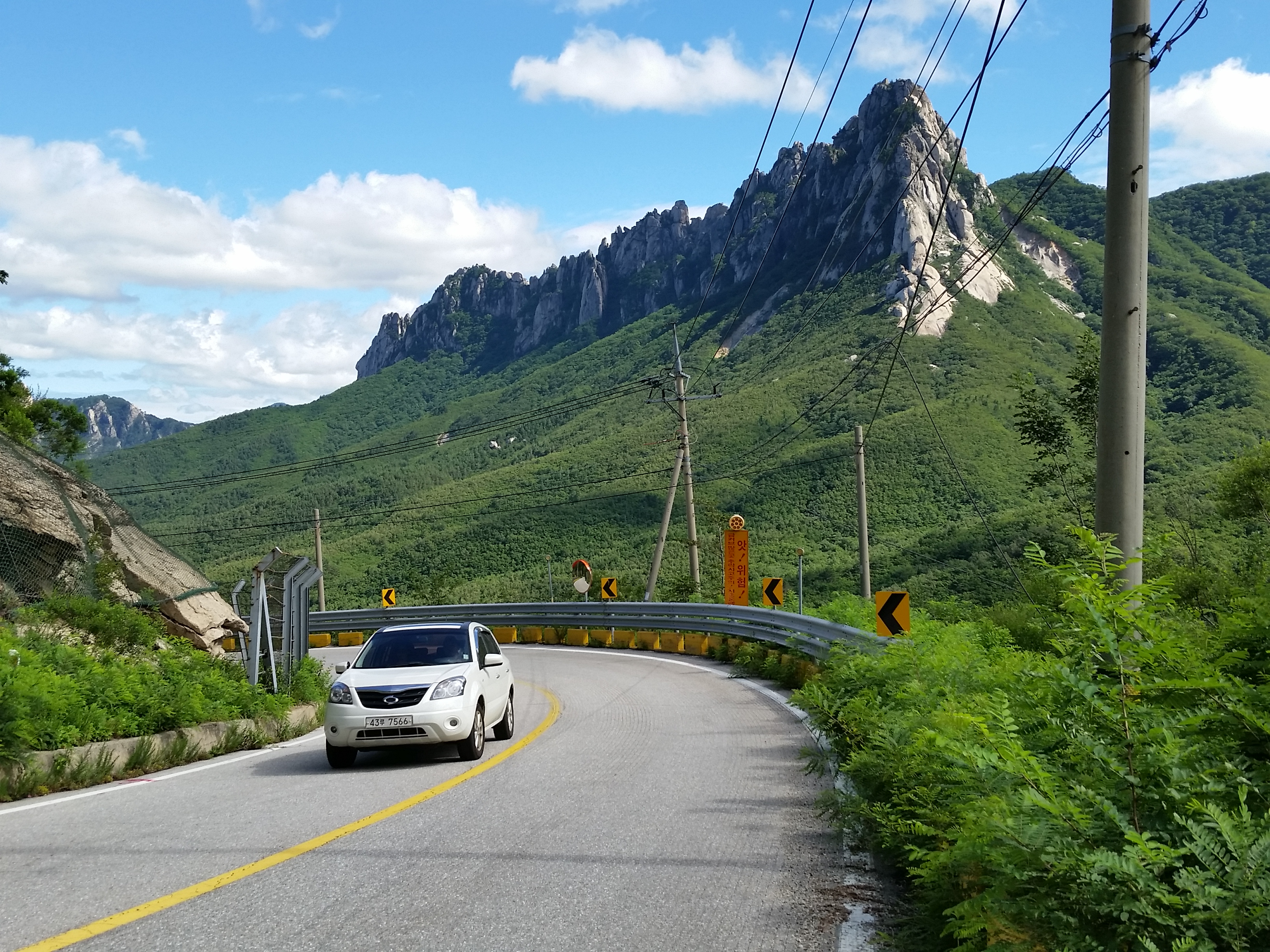 Ulsanbawi Rock as seen from the Misiryeong Ridge